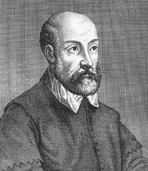 Venetian architect from Italy. 16th century